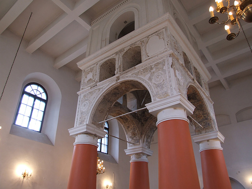 Big Synagogue in Łęczna